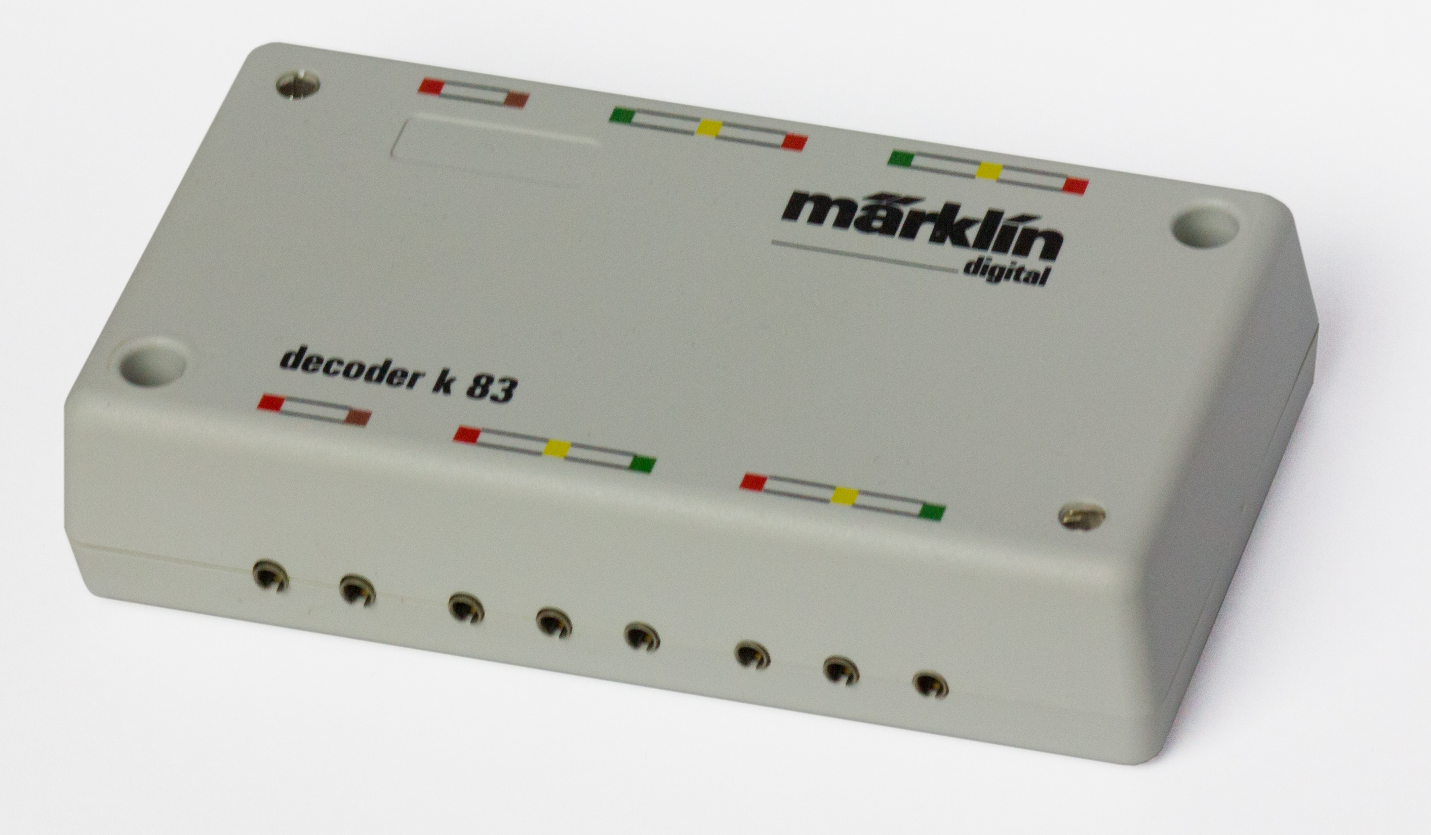 Märklin K83 decoder.